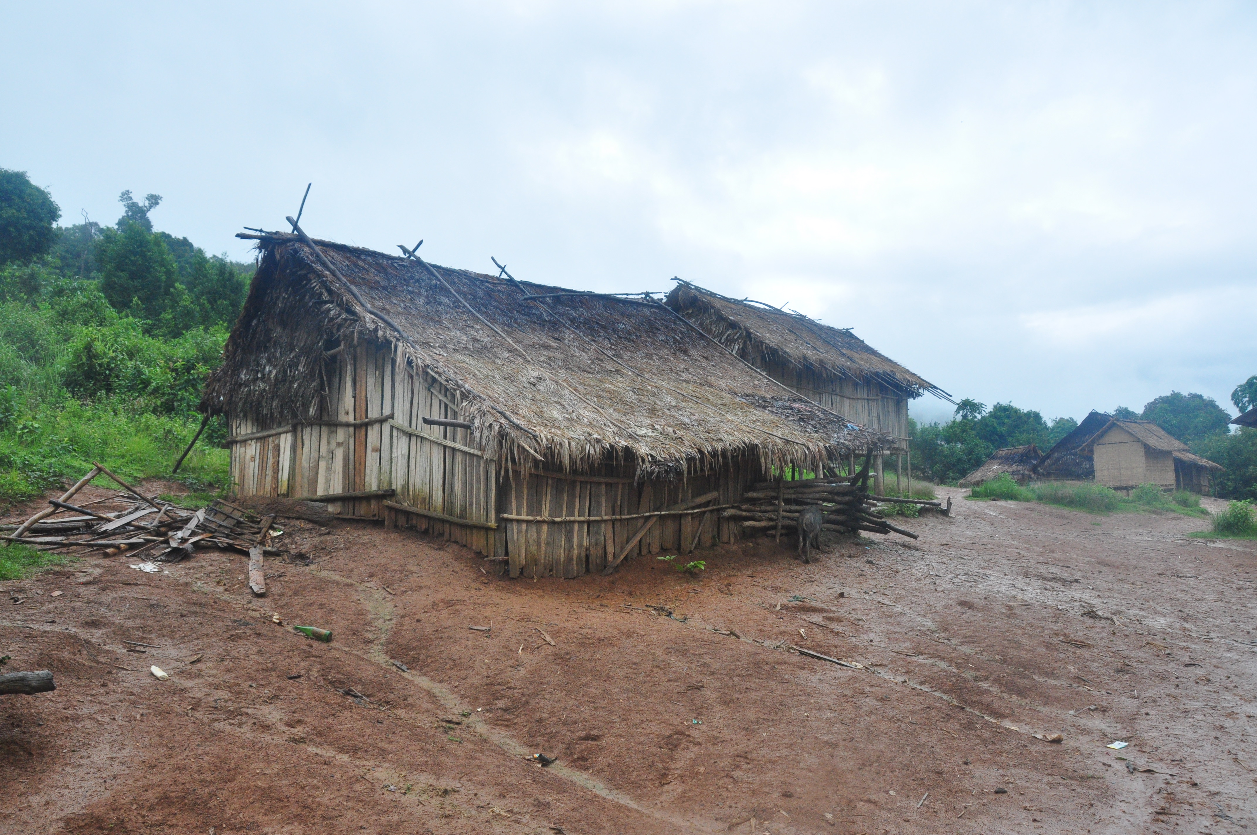 Huts in a village in the Nam Ha NPA, Laos